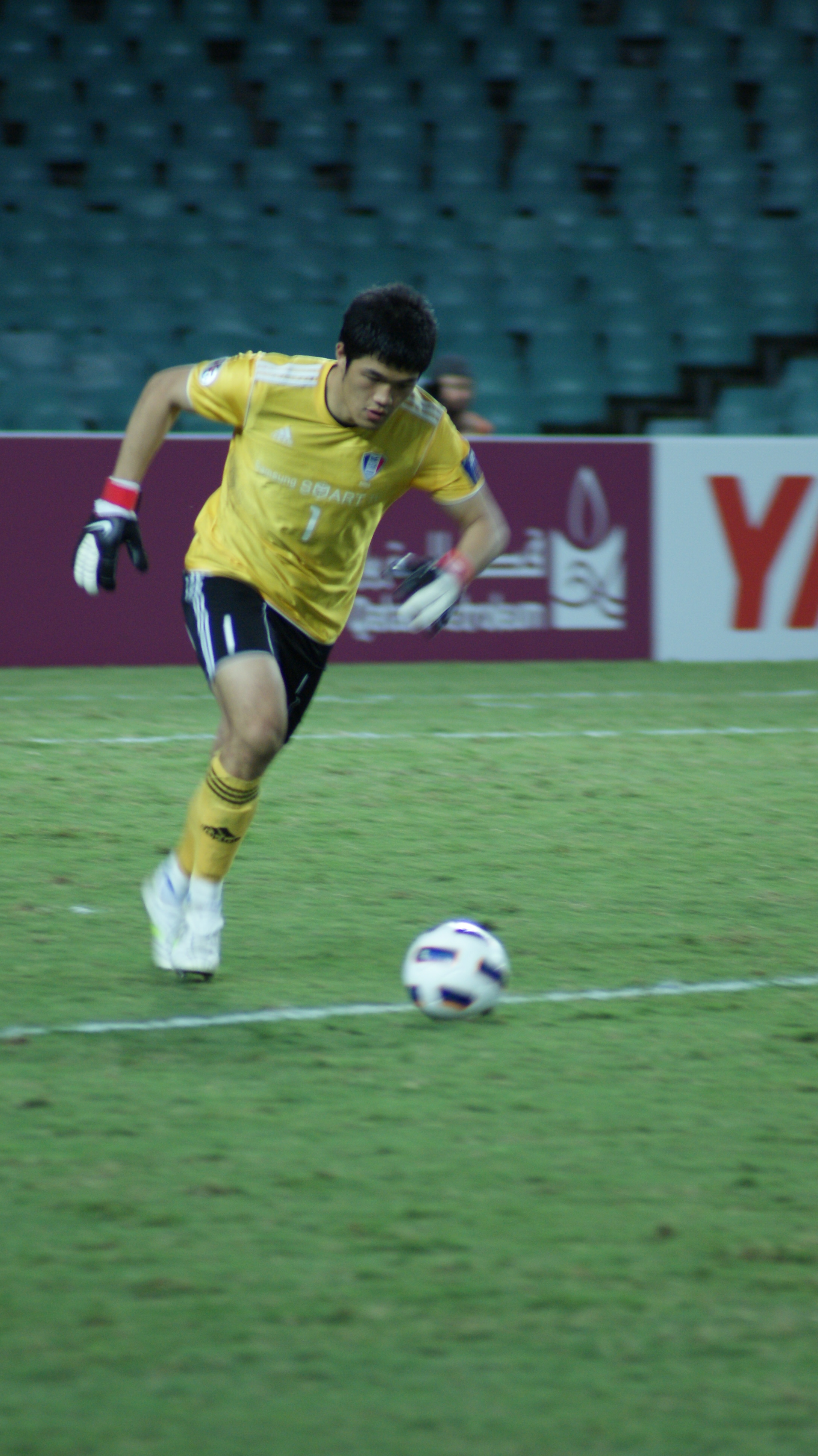 Photos from Match Day 1 of the 2011 Asian Champions League Tournament between Sydney FC (Australia) v Suwon Samsung Bluewings (Korea). Match Report: Photos by: Pete Nowakowski